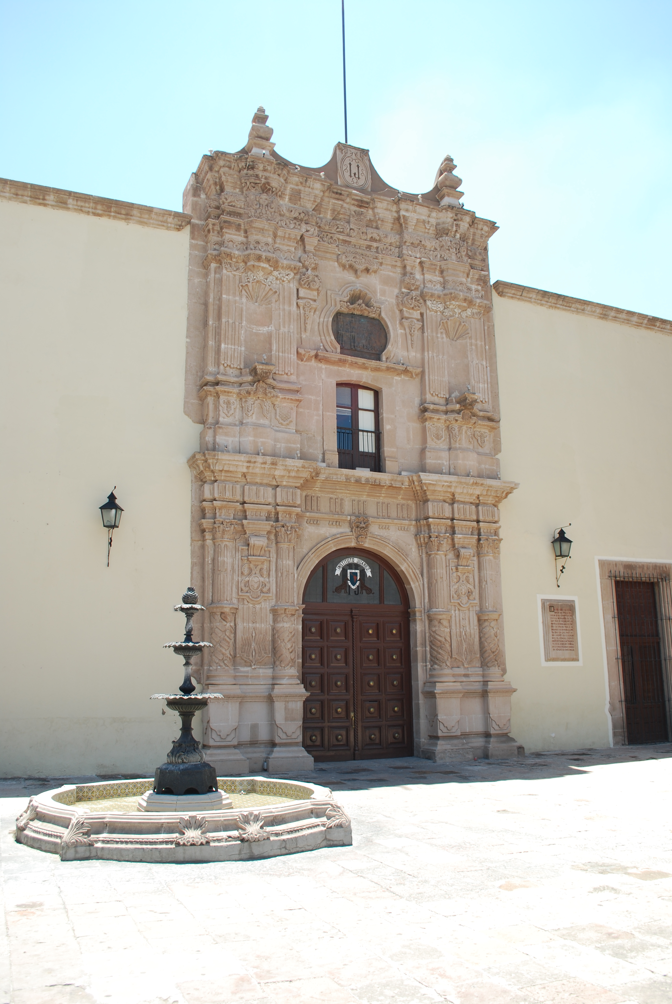 View of the former Jesuit church now the main building for the Universidad Juárez del Estado de Durango in the Plaza de los Fundadores in Victoria de Durango, Mexico